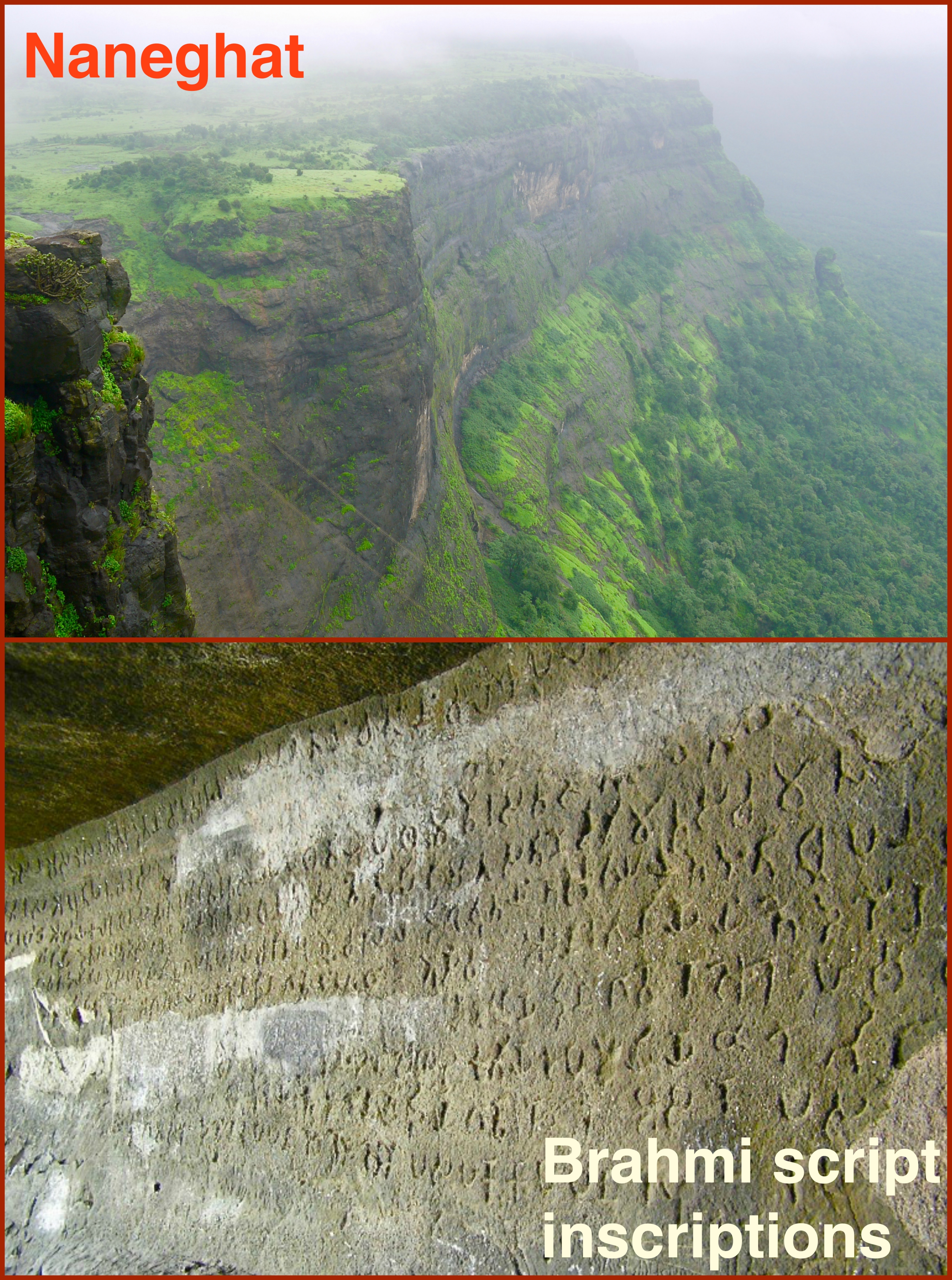 Naneghat, also spelled Nanaghat, is a high plateau and pass through the Western Ghats in Maharashtra. Stone steps lead to through this pass between the Konkan area and Junnar, an ancient town. On top of Naneghat pass are caves, ancient ones. One of them is large and has panels of ancient Sanskrit inscriptions in Brahmi script. Generally dated to about the 2nd century BCE (3rd or 1st according to some). These were sponsored by a Satvahana Queen. Her inscriptions are considered as among the oldest surviving Hindu inscriptions. These are a valued record of ancient India, its religious beliefs and society. Professor Buhler, in an early scholarly article wrote, "in some respects these are more interesting and important than all the other cave inscriptions taken together". This is derivative work on the following wikimedia commons files: ... view from Naneghat top (6049621218).jpg 2nd century BCE Nanaghat Hindu Inscription Brahmi script Mahabharata.jpg